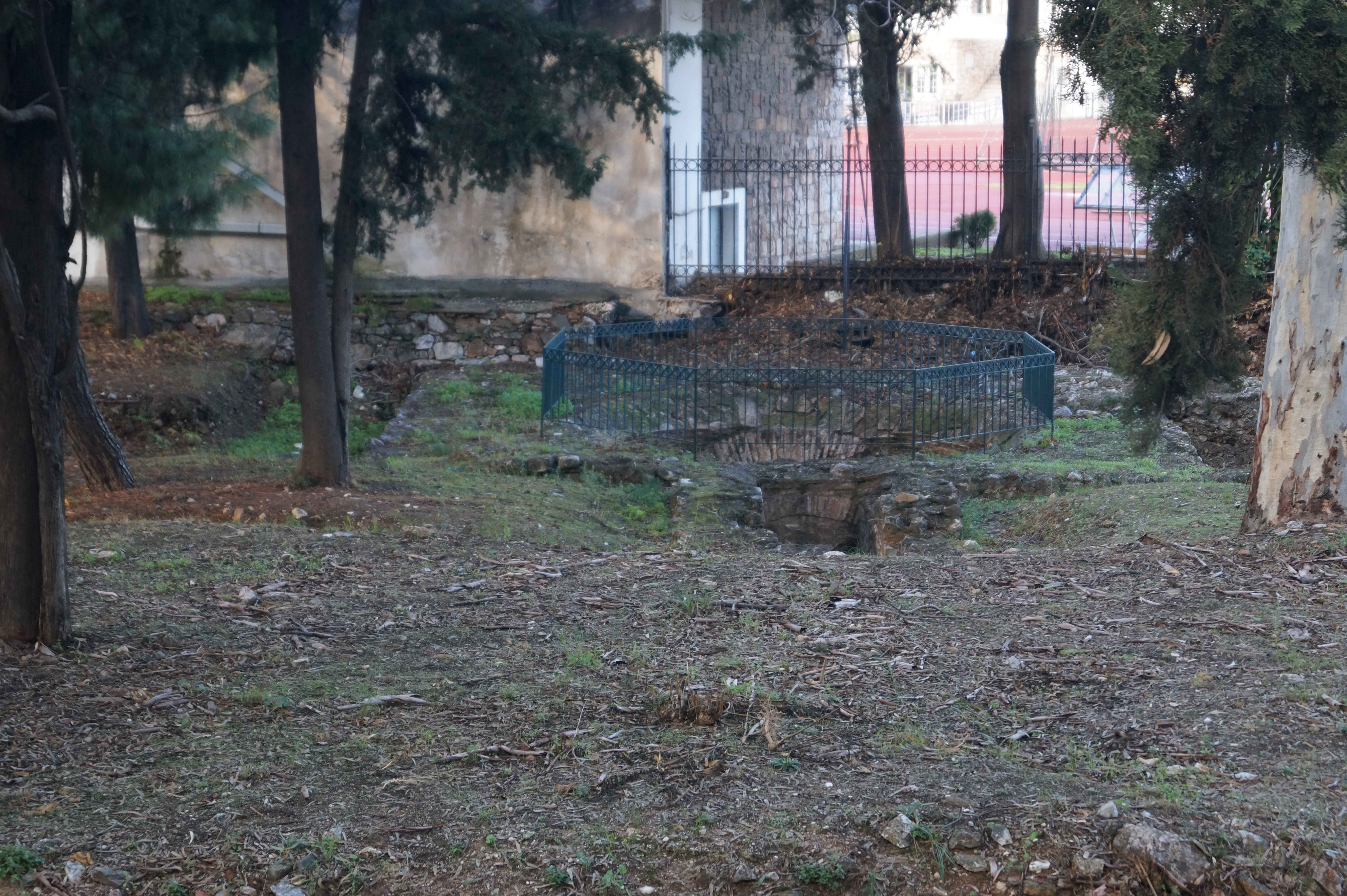 Athens, Greece: Martyrium of the Ilissos Basilica.